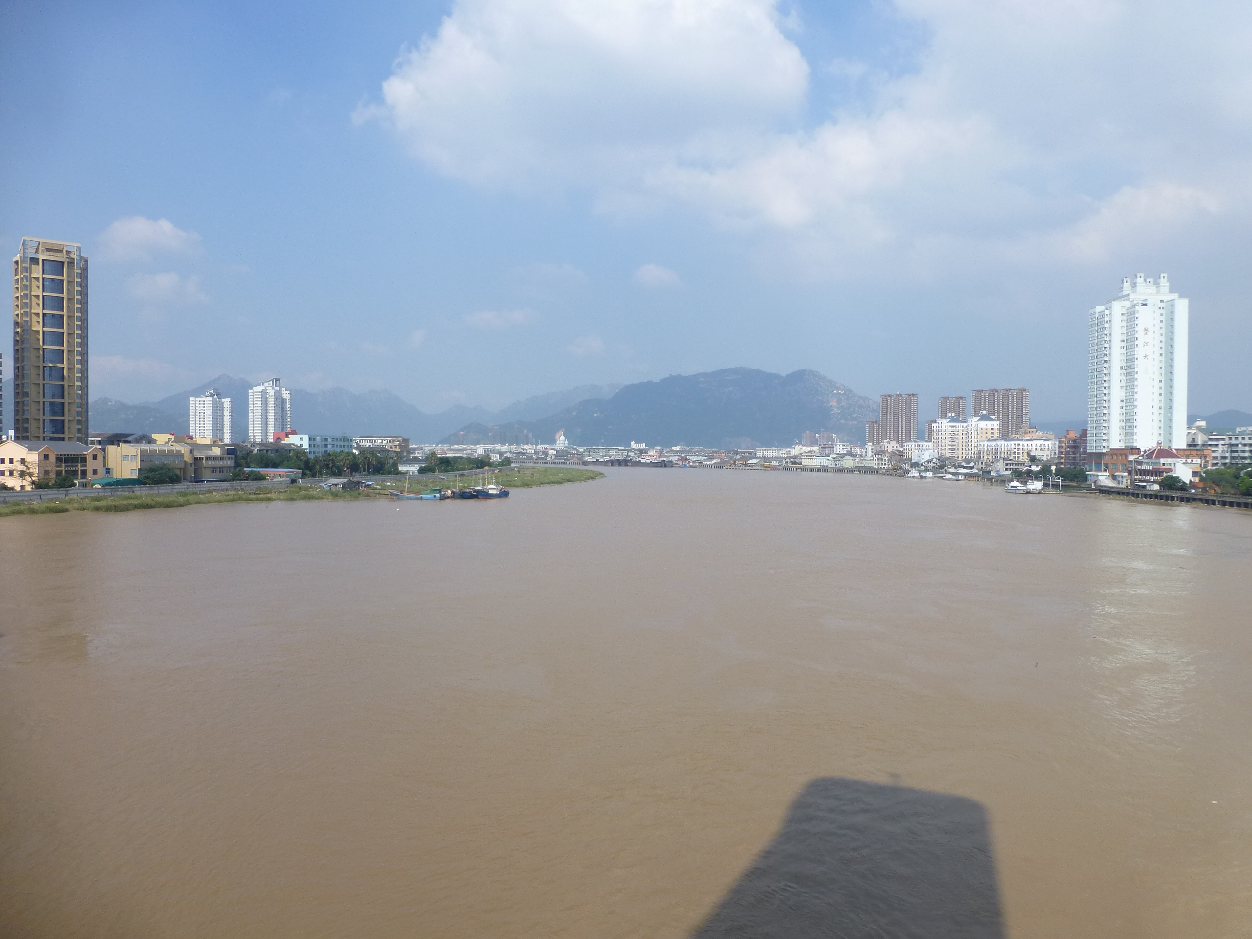 Ounan Bridge spans the Aojiang River, connecting Aojiang Town (Pingyang County; north side of the river) and Longgang Town (Cangnan County; south side of the river) in Wenzhou Prefecture, Zhejiang, China. This photo: a view upstream from the bridge. Aojiang is on the right (the left bank of the river), Longgang on the left (the right bank) 中文（中国大陆）: 瓯南大桥